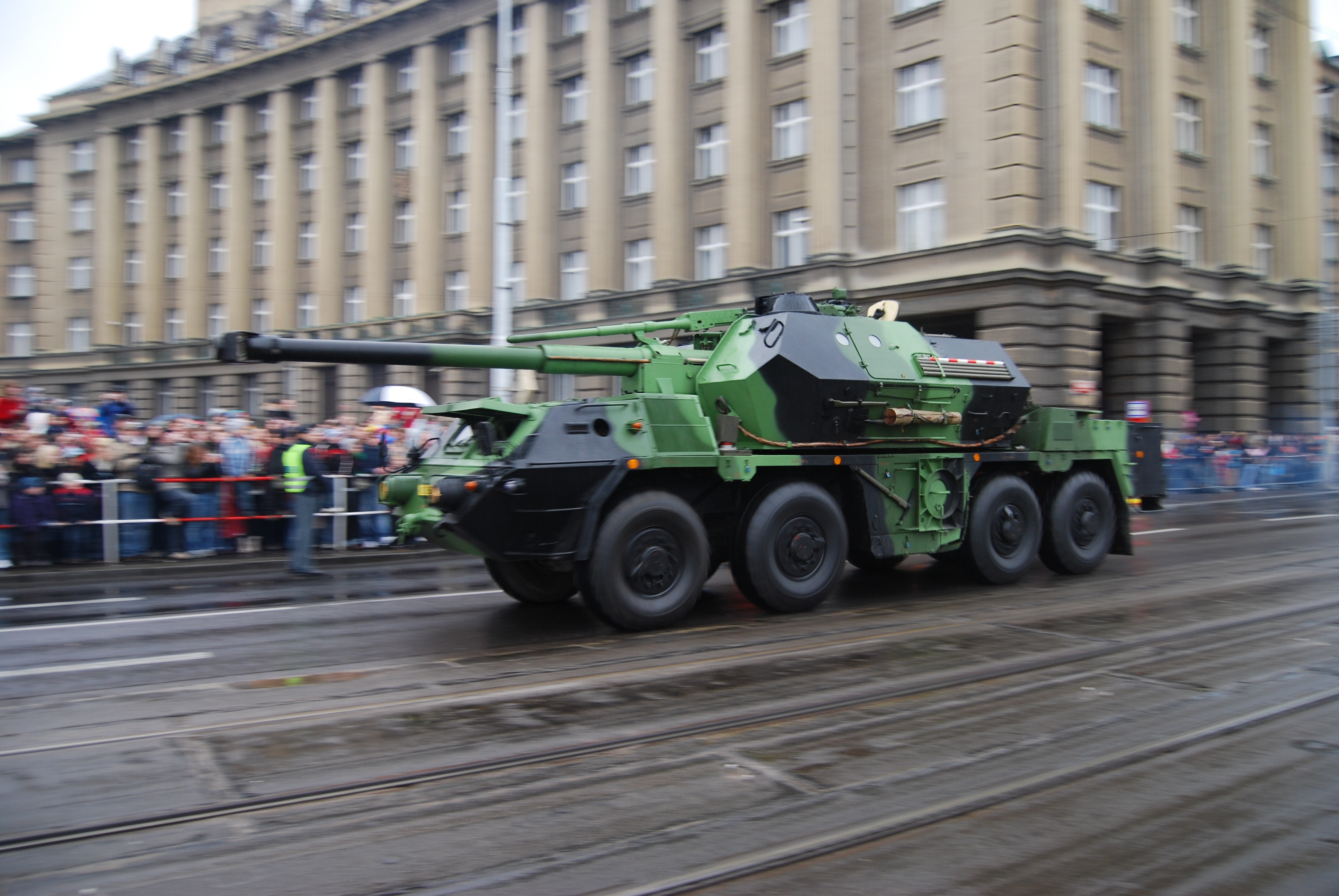 Military parade in Prague, Czech Republic as the 90th anniversary of independence of the Czechoslovakia. 152 mm samohybná kanónová houfnice vz. 77 "Dana"